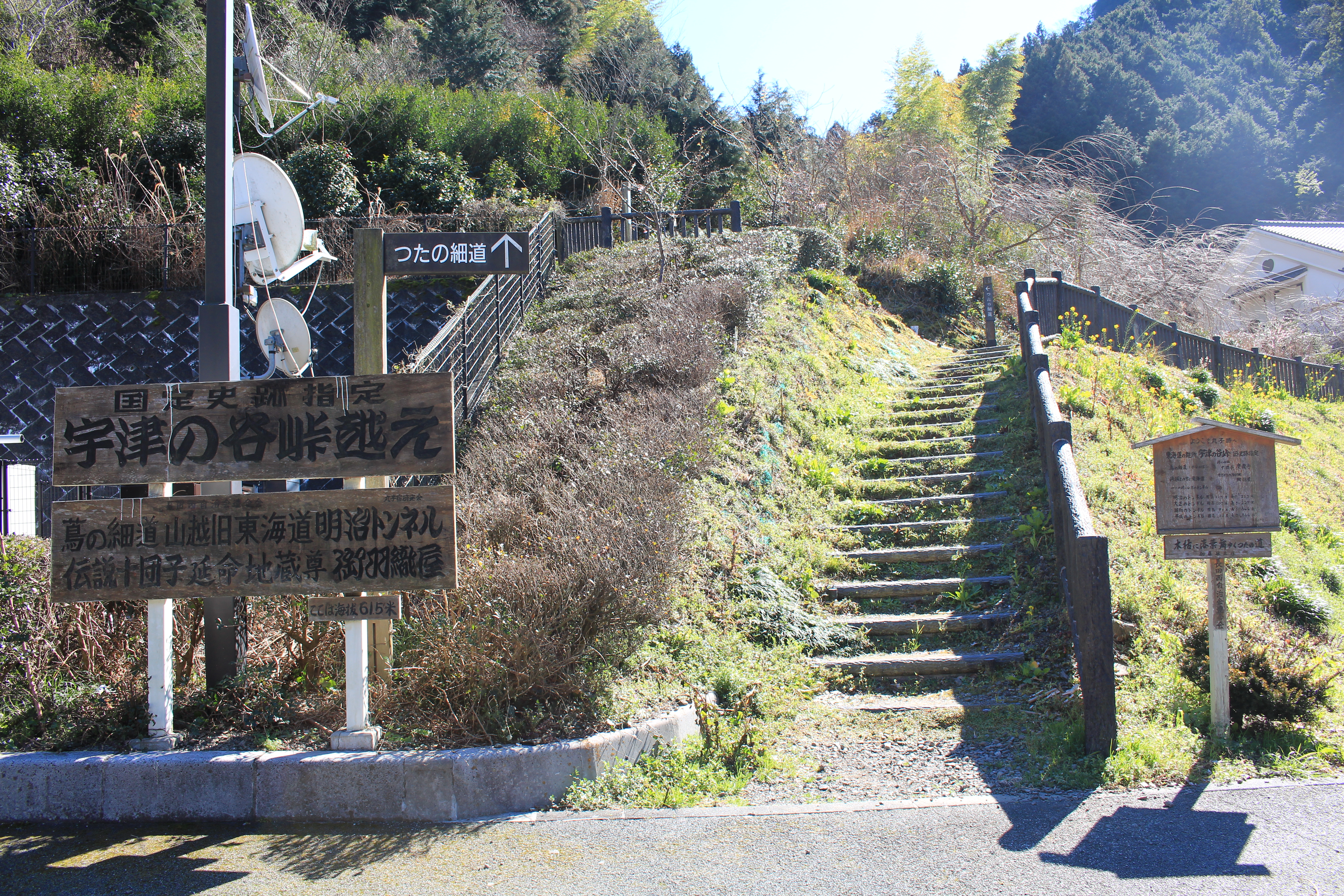 Northern entrance of Tsuta no Hosomichi, a historical road in Suruga-ku, Shizuoka, Shizuoka prefecture, Japan.